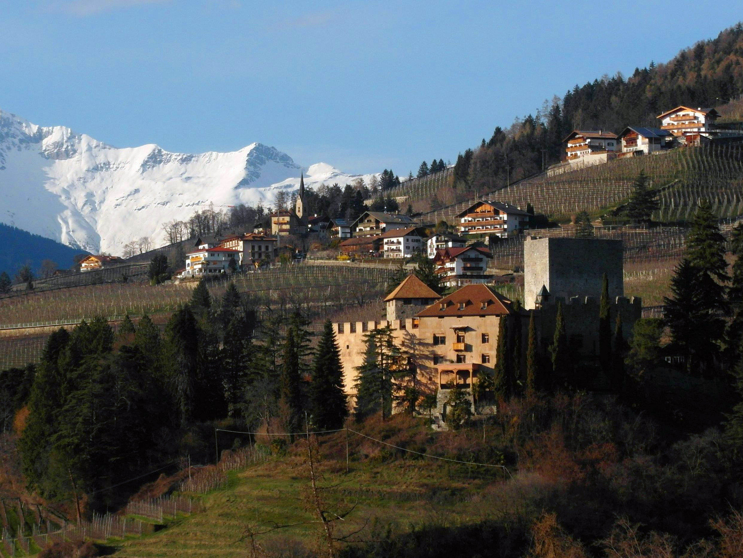 Castle Goyen with keep and curtain wall, which results in Schenna at the entrance of Natales around the tower. The castle in its present appearance dates back to the 12th century.